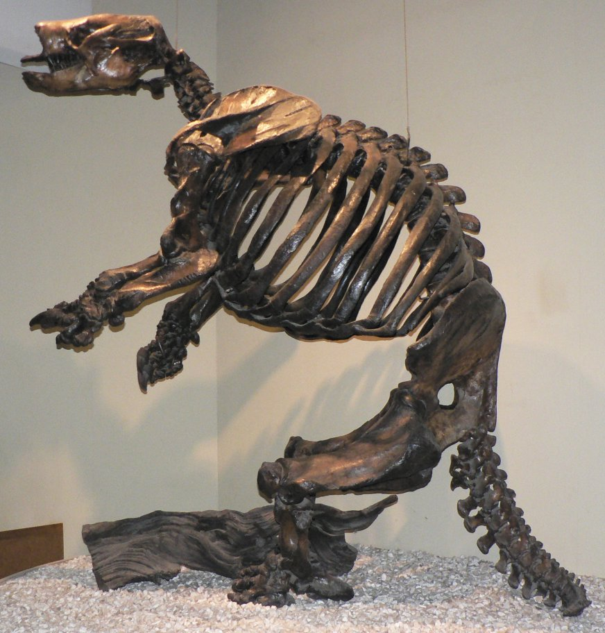 Skeleton of Paramylodon harlani, a Ground Sloth, La Brea Tar Pits.